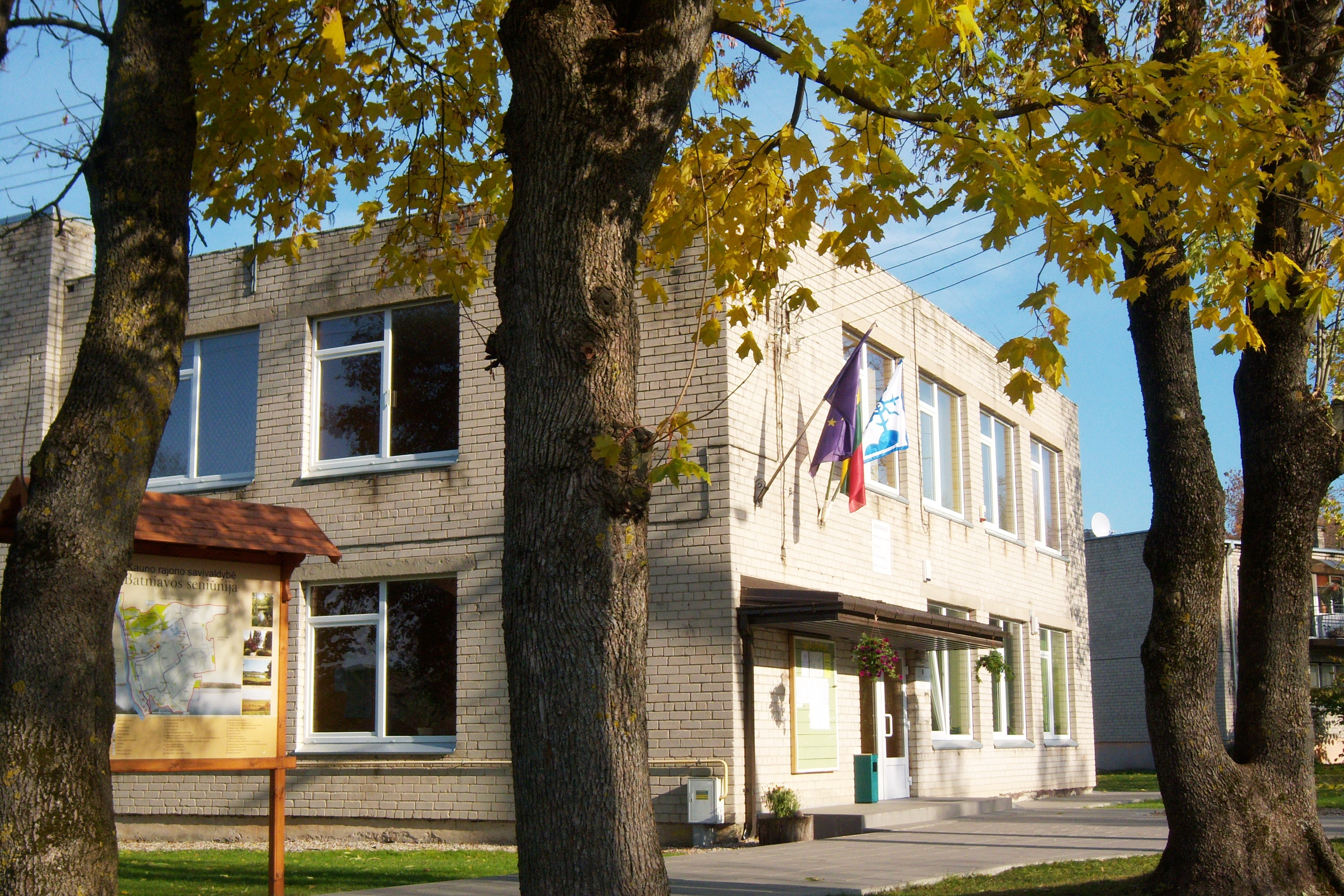 Bubiai, Batniava Eldership, Kaunas District. Lithuania